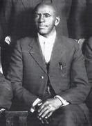 Negro Leagues second baseman and manager C.I. Taylor at the Negro National League annual meeting held in Chicago in January, 1922.